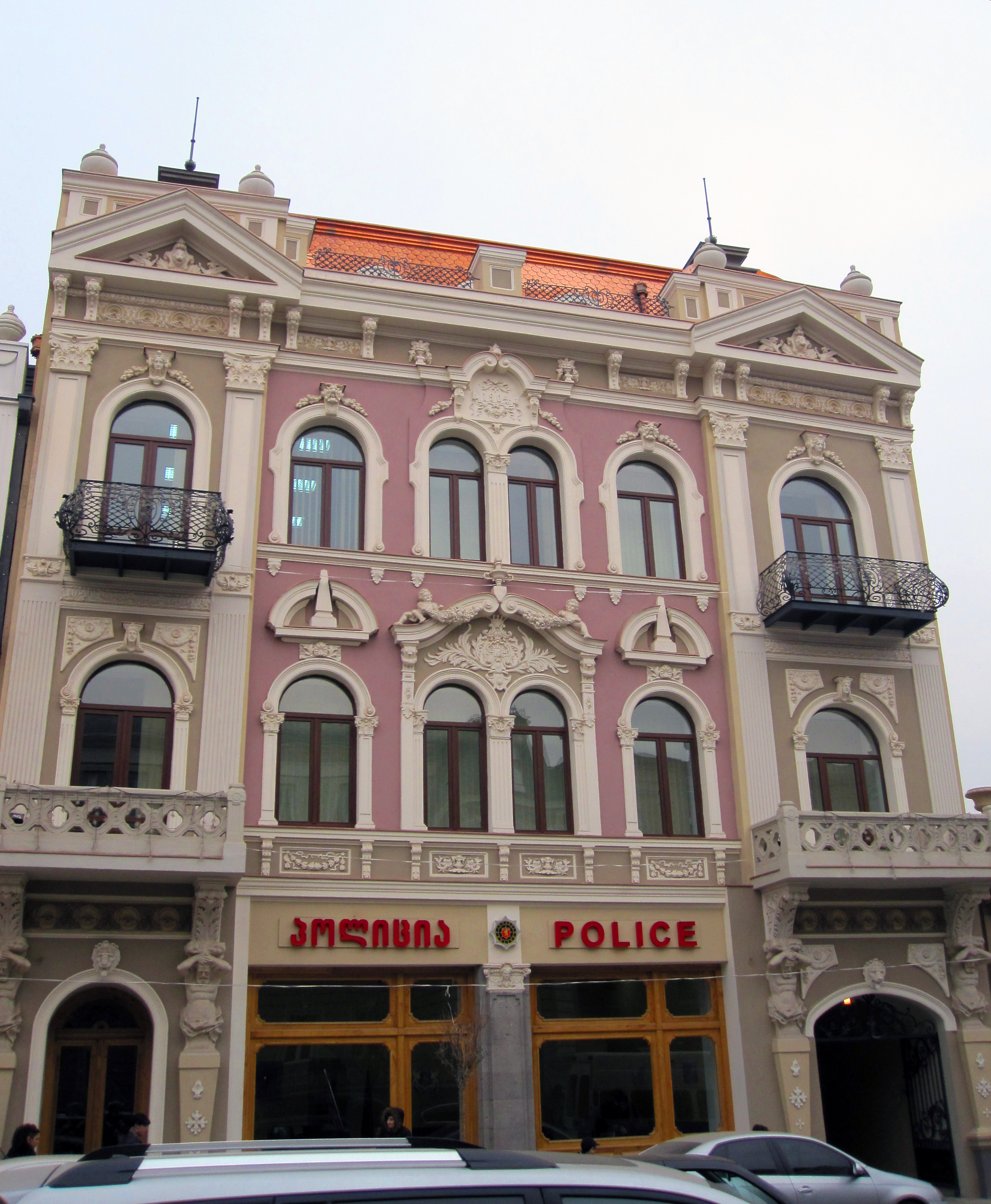 Georgian police station on David the Builder Avenue, Tbilisi